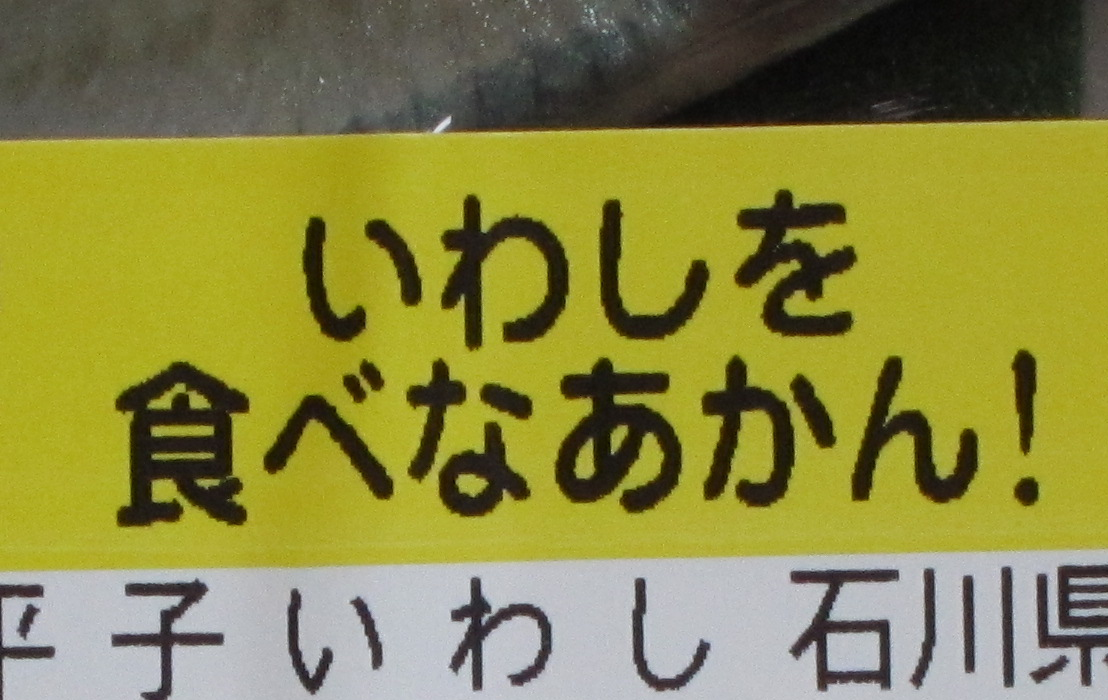 Label on a package of sardines in Kansai dialect; package purchased at a Kyoto supermarket. Label reads 「いわしを食べなあかん！」, “Eat your sardines!”; in romanization “Iwashi-wo tabenaakan!”.